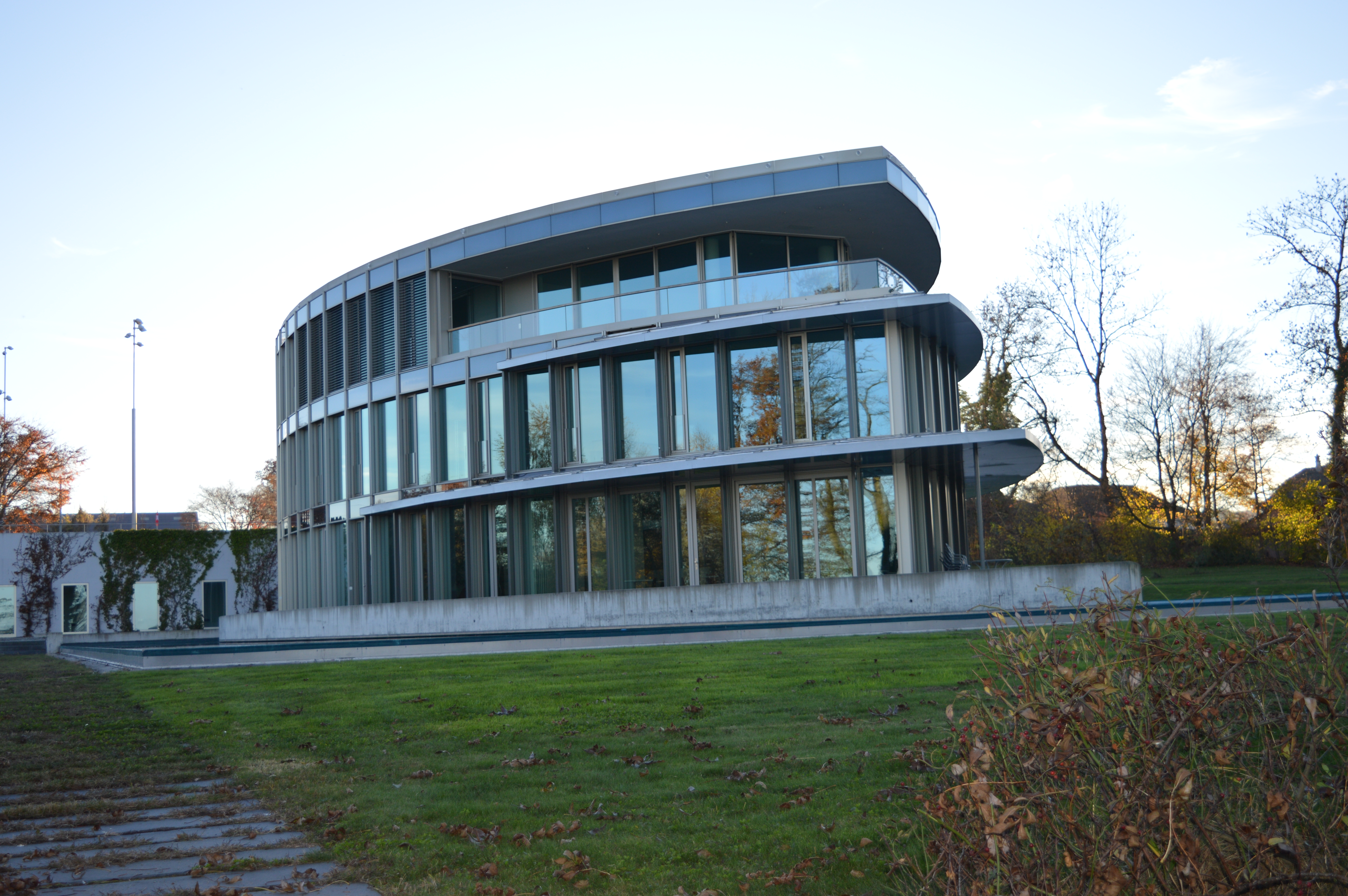 Uttwil, canton of Thurgovia, SwitzerlandEsperanto: Uttwil, Kantono Turgovio, Svislando